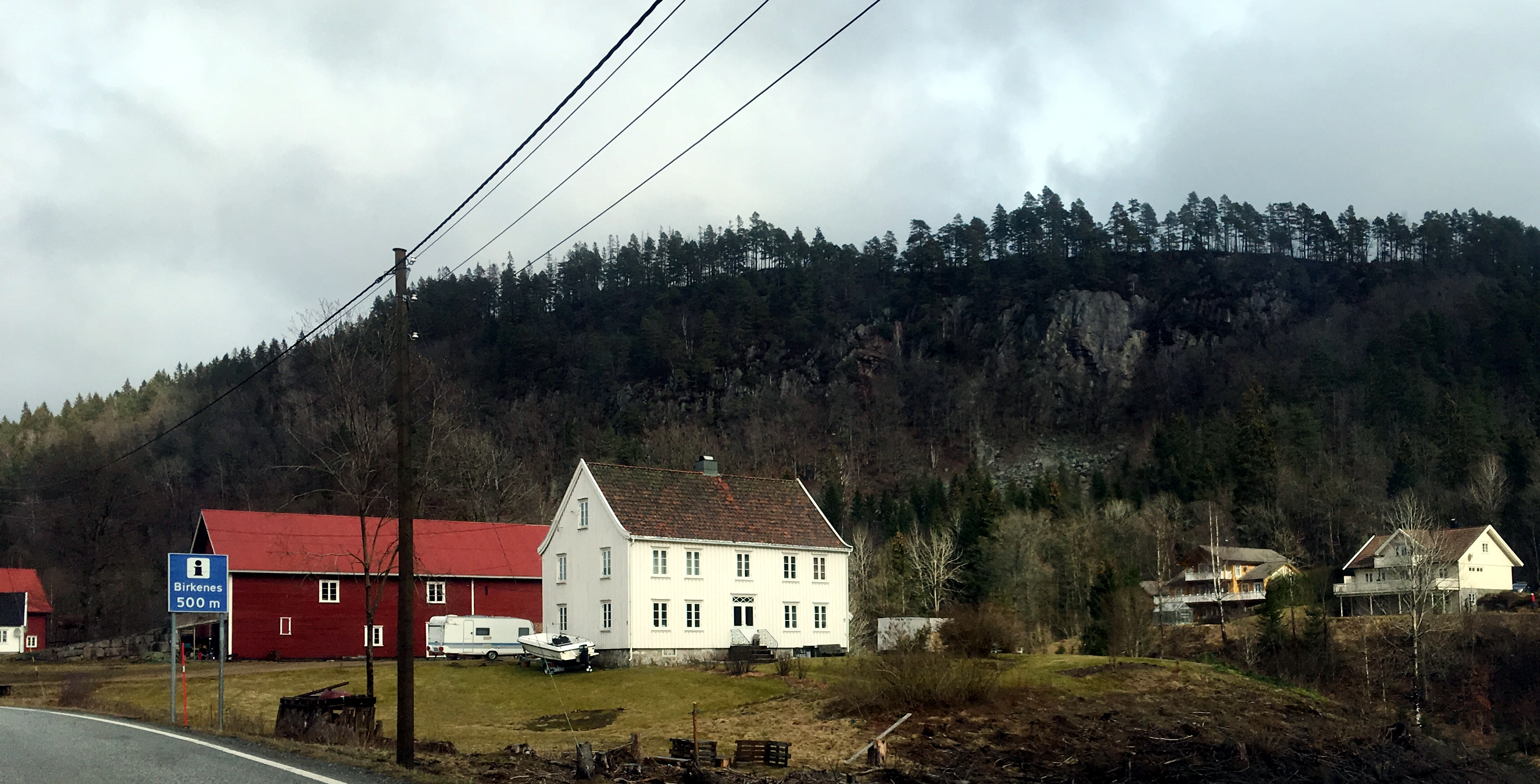 The farm Have is located at Rugsland in Birkenes municipality, Aust-Agder, Norway